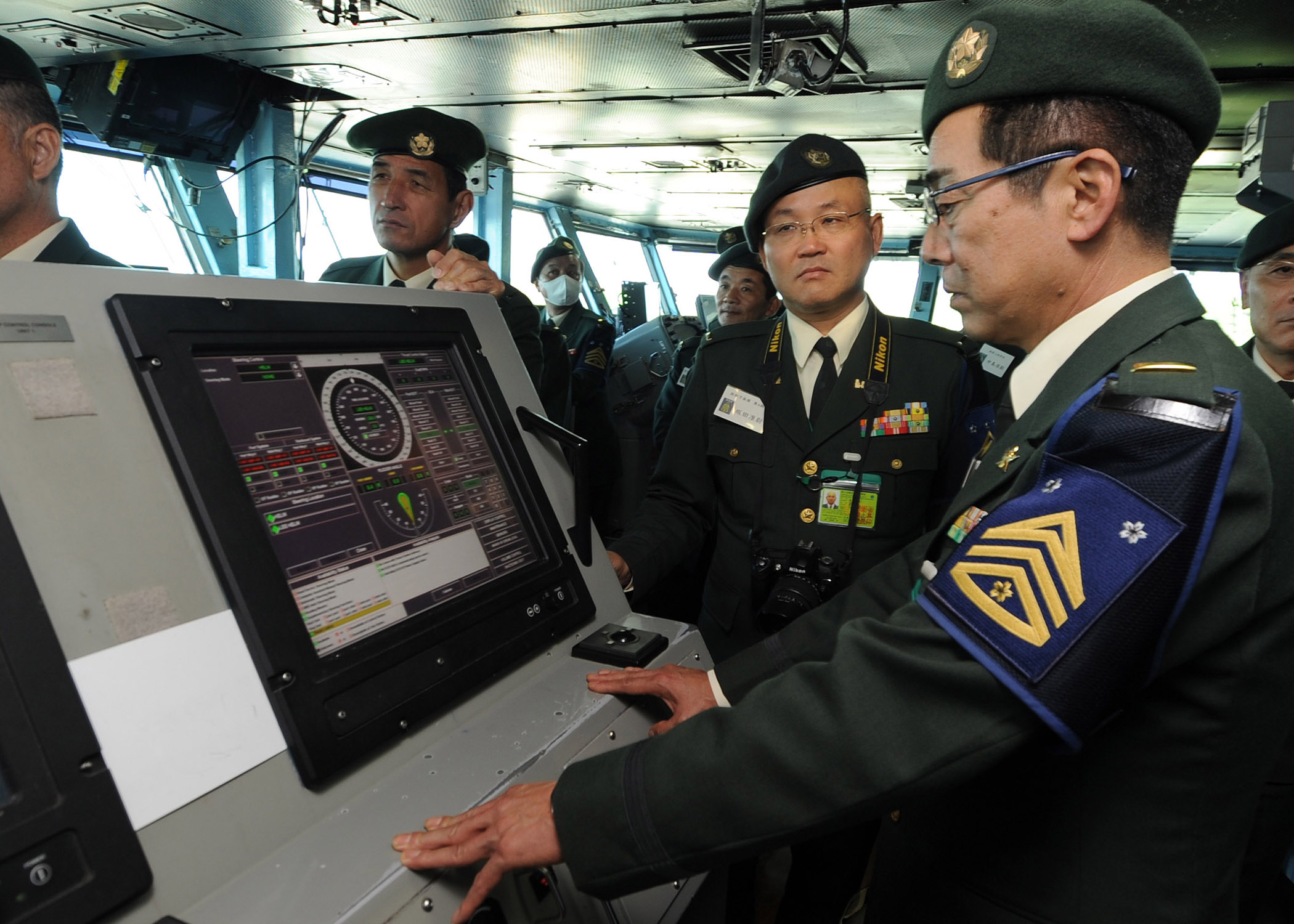 YOKOSUKA, Japan (Nov. 9, 2010) Members of the Japan Ground Self-Defense Force observe navigation equipment on the navigation bridge aboard the aircraft carrier USS George Washington (CVN 73) during their tour of the ship. George Washington will undergo minor upkeep while in Yokosuka before continuing her mission of ensuring security, safety and prosperity in the western Pacific Ocean. (U.S. Navy photo by Mass Communication Specialist 3rd Class Jacob D. Moore/Released)